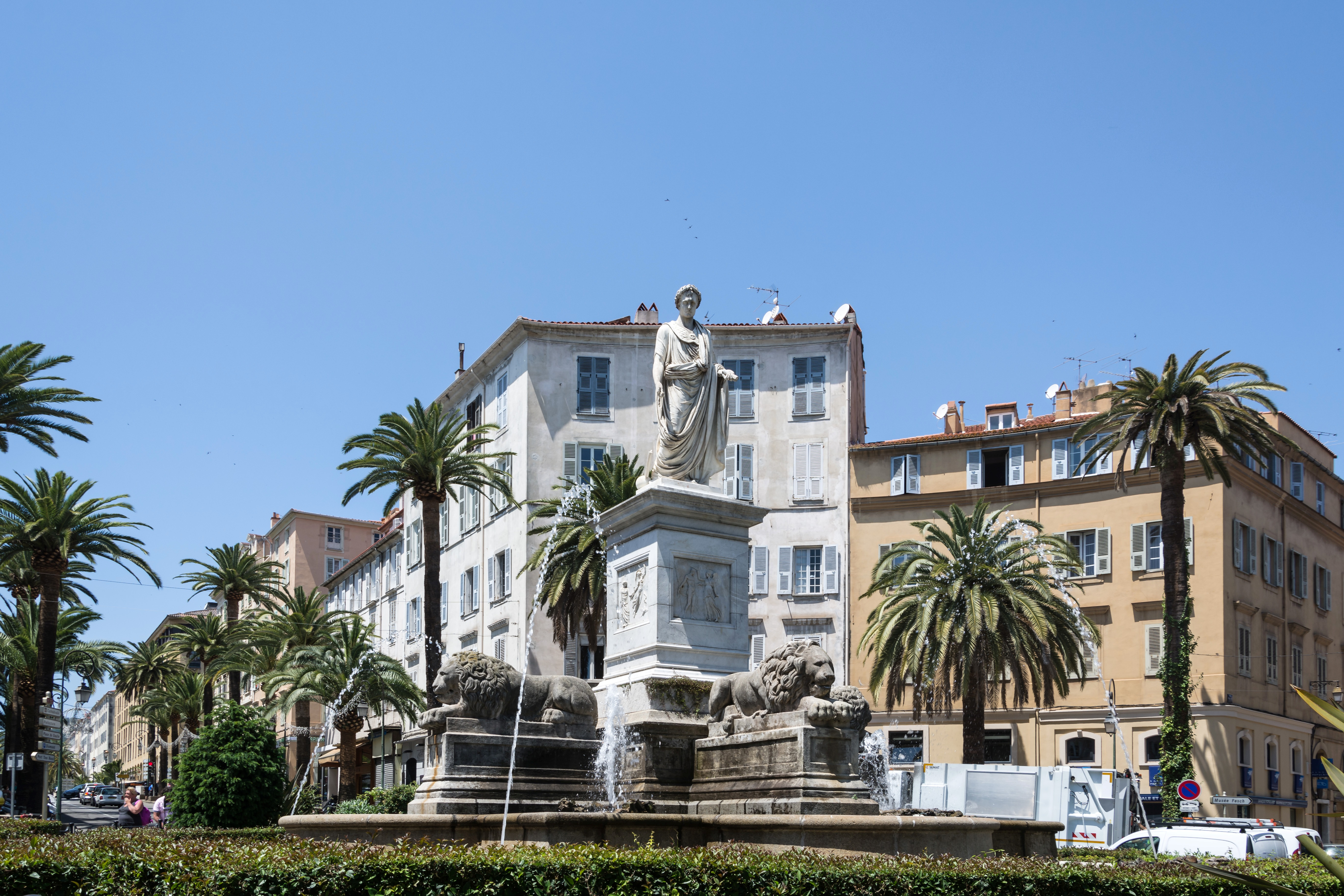 The monument of Napoleon Bonaparte in the Place du Maréchal-Foch (Ajaccio, Corsica) at the lions fountain.